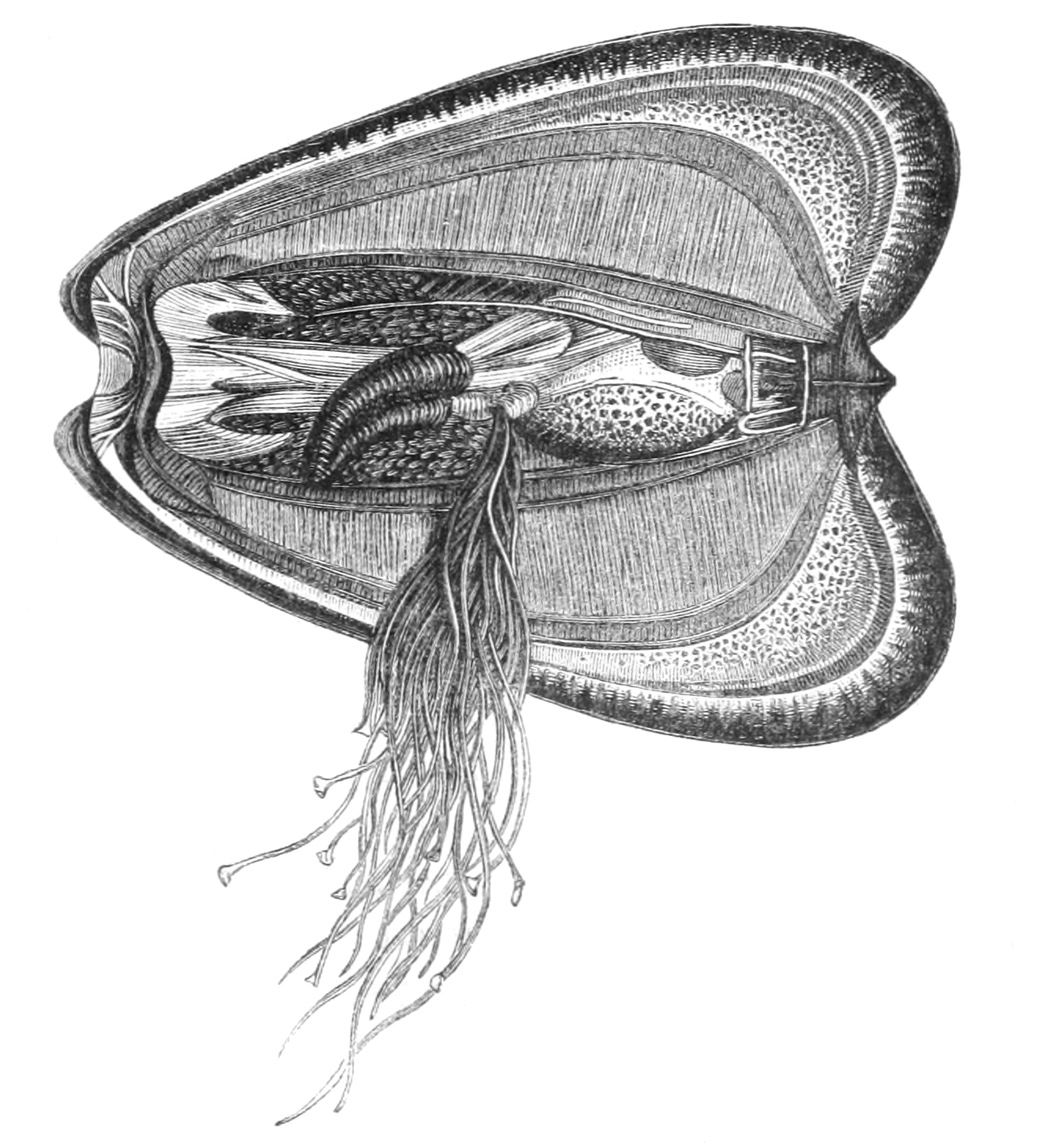 Illustration from Natural History: Mollusca (1854), p. 257 - "MUSSEL" (Mytilus edulis).